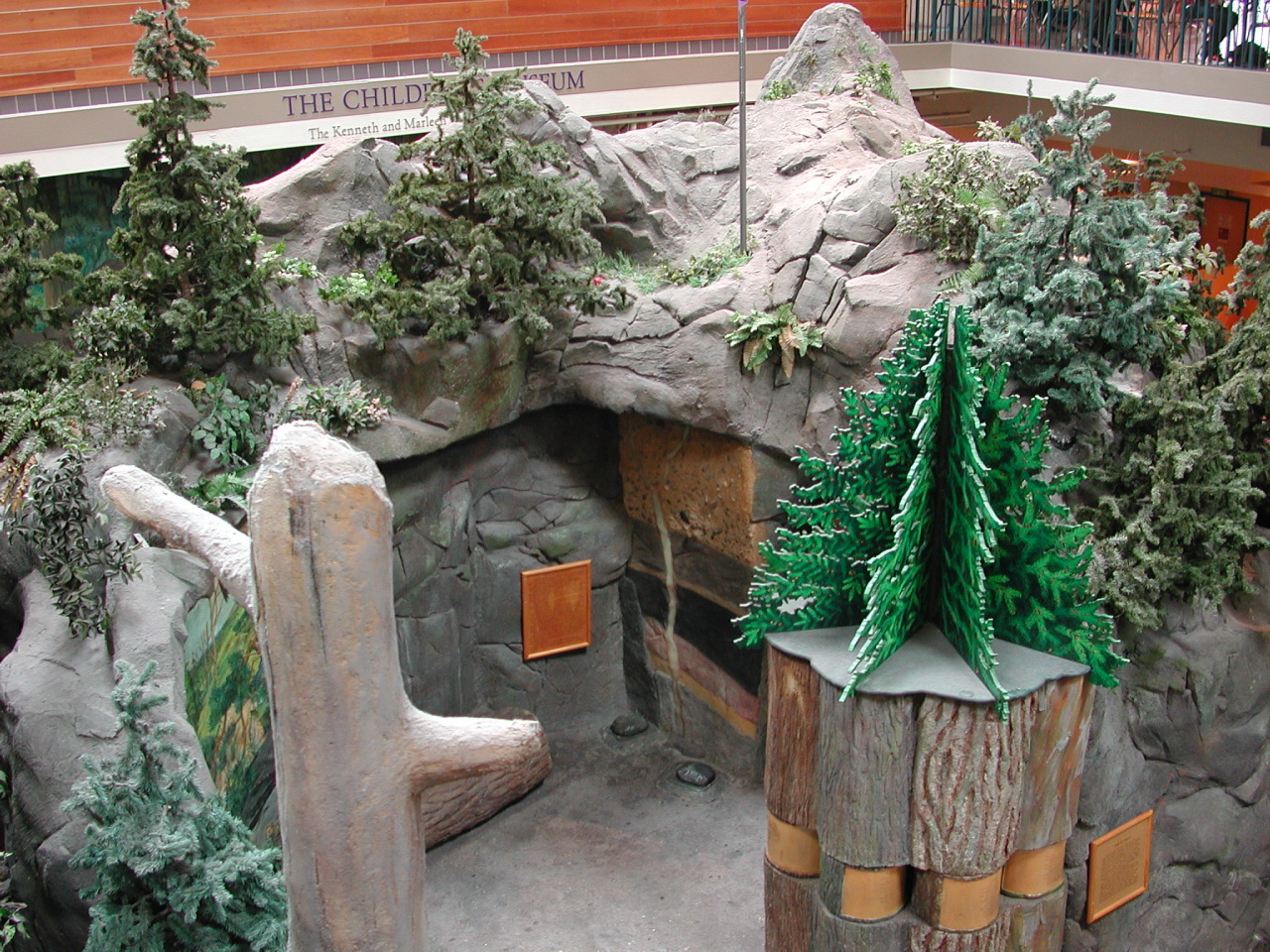 Children’s Museum Alice in Wonderland play area.